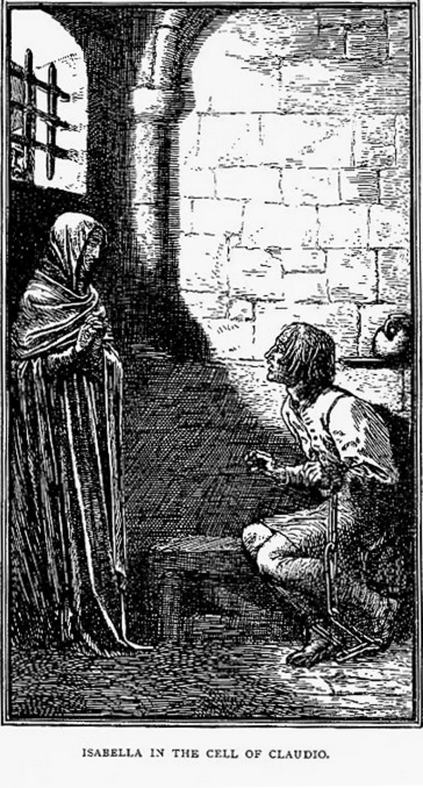 Tales from Shakespeare, Robert Anning Bell, 1899ː Isabella and Claudio.